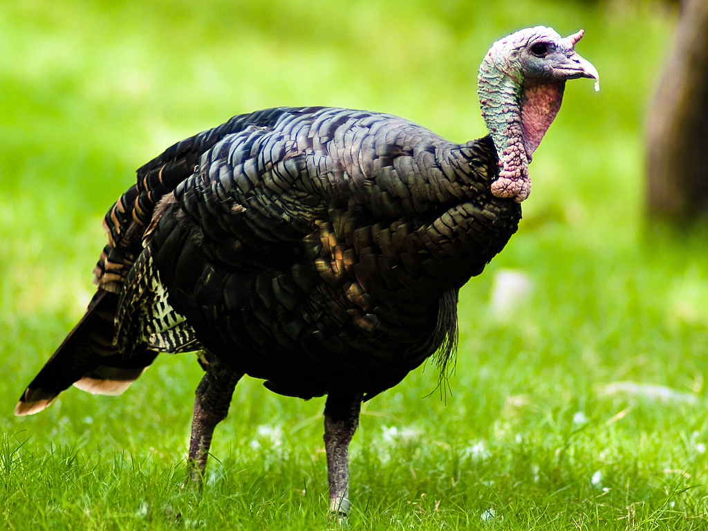 Wild Turkey (Meleagris gallopavo) in Fort Worth Zoo